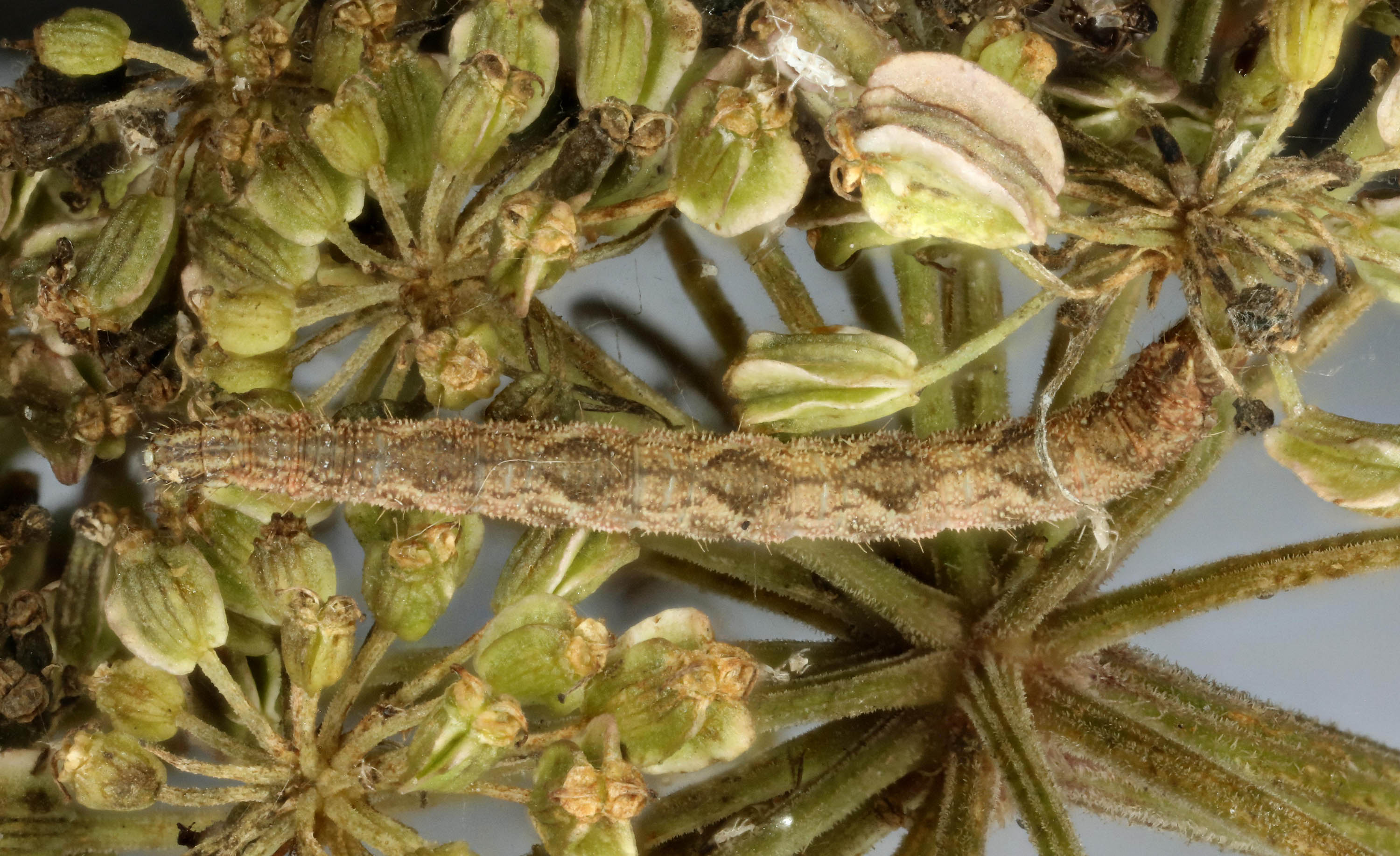 Eupithecia subfuscata, Grey Pug, larva. Sontley, North Wales, Aug 2015